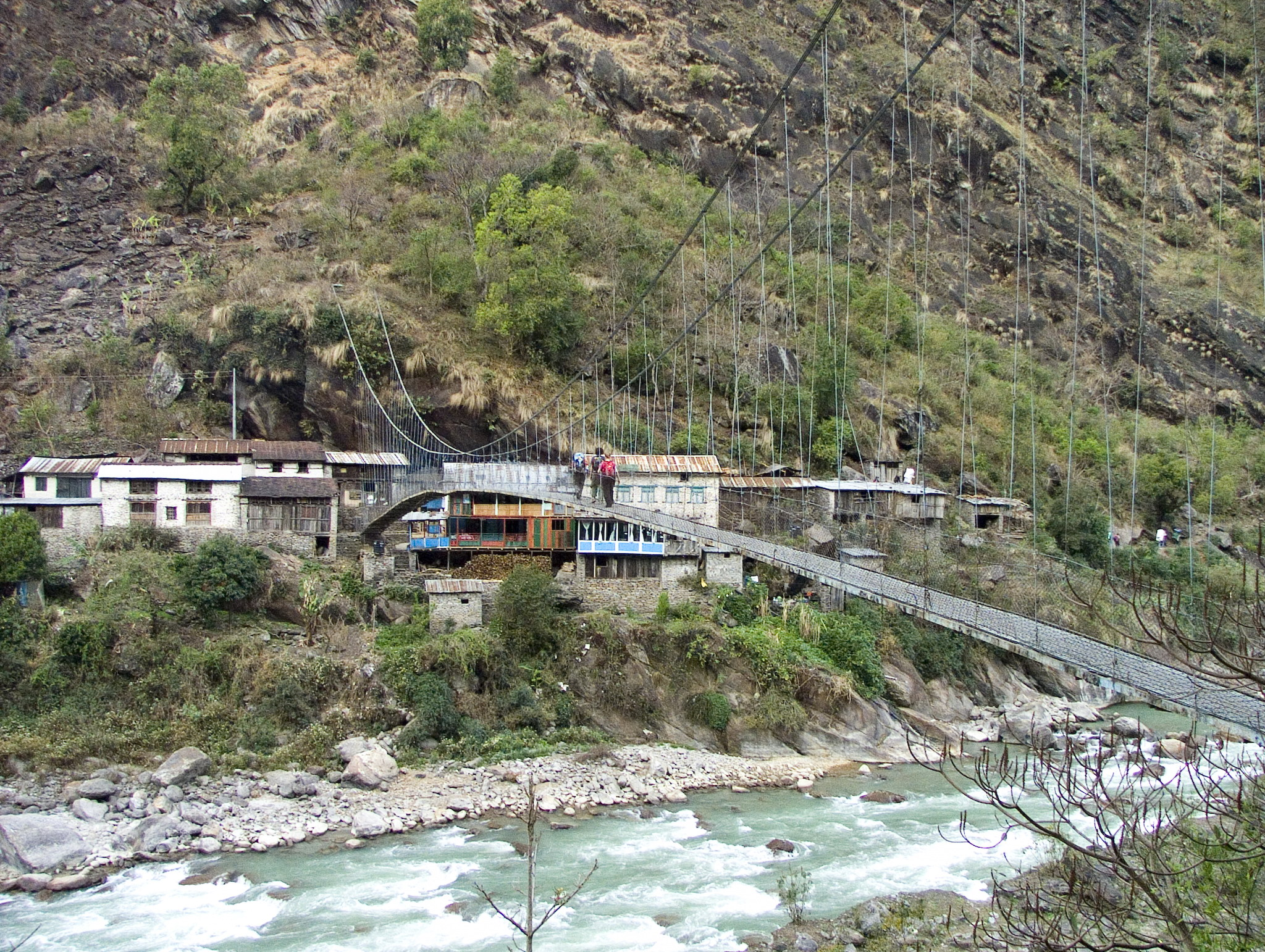 Day 3 yaara, noa and chen on the bridge